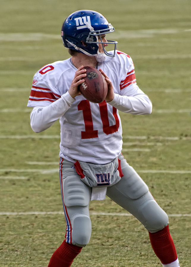 New York Giants vs. Green Bay Packers in the NFC Divisional Playoff Game at Lambeau Field on January 15, 2012. Photo by Mike Morbeck.